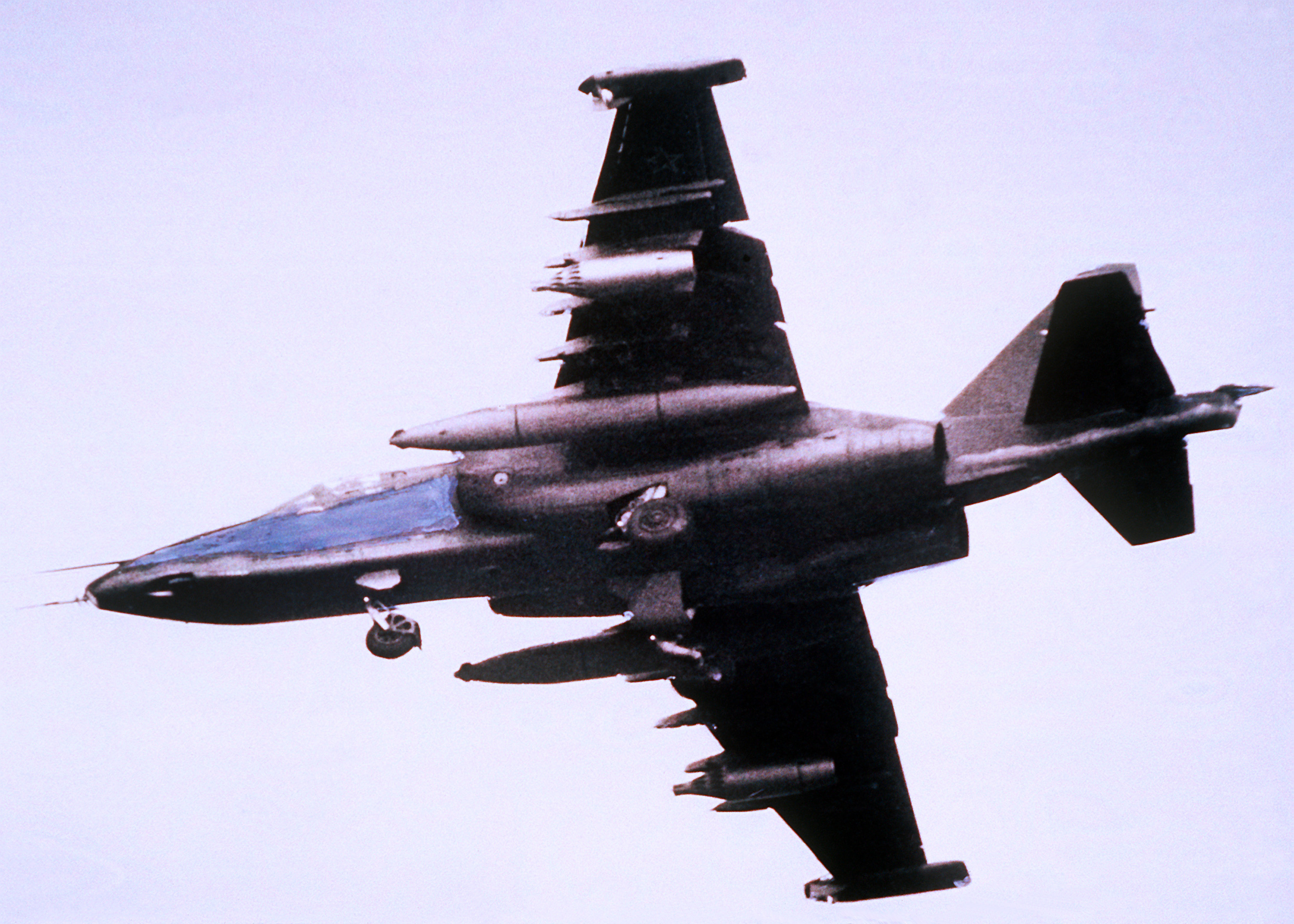 A left underside view of a Soviet Su-25 Frogfoot aircraft in-flight.